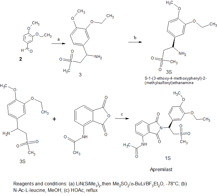 A way to synthesize Apremilast, an analog of thalidomide